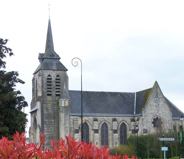 church of Essars rebuilt after WWI